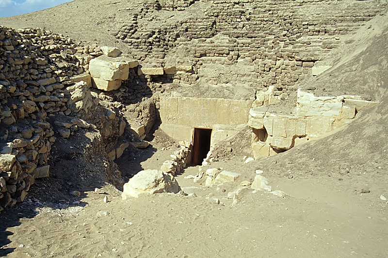 Entrance of the pyramid of Amenemhet III, Hawara, el-Fayyum, Egypt